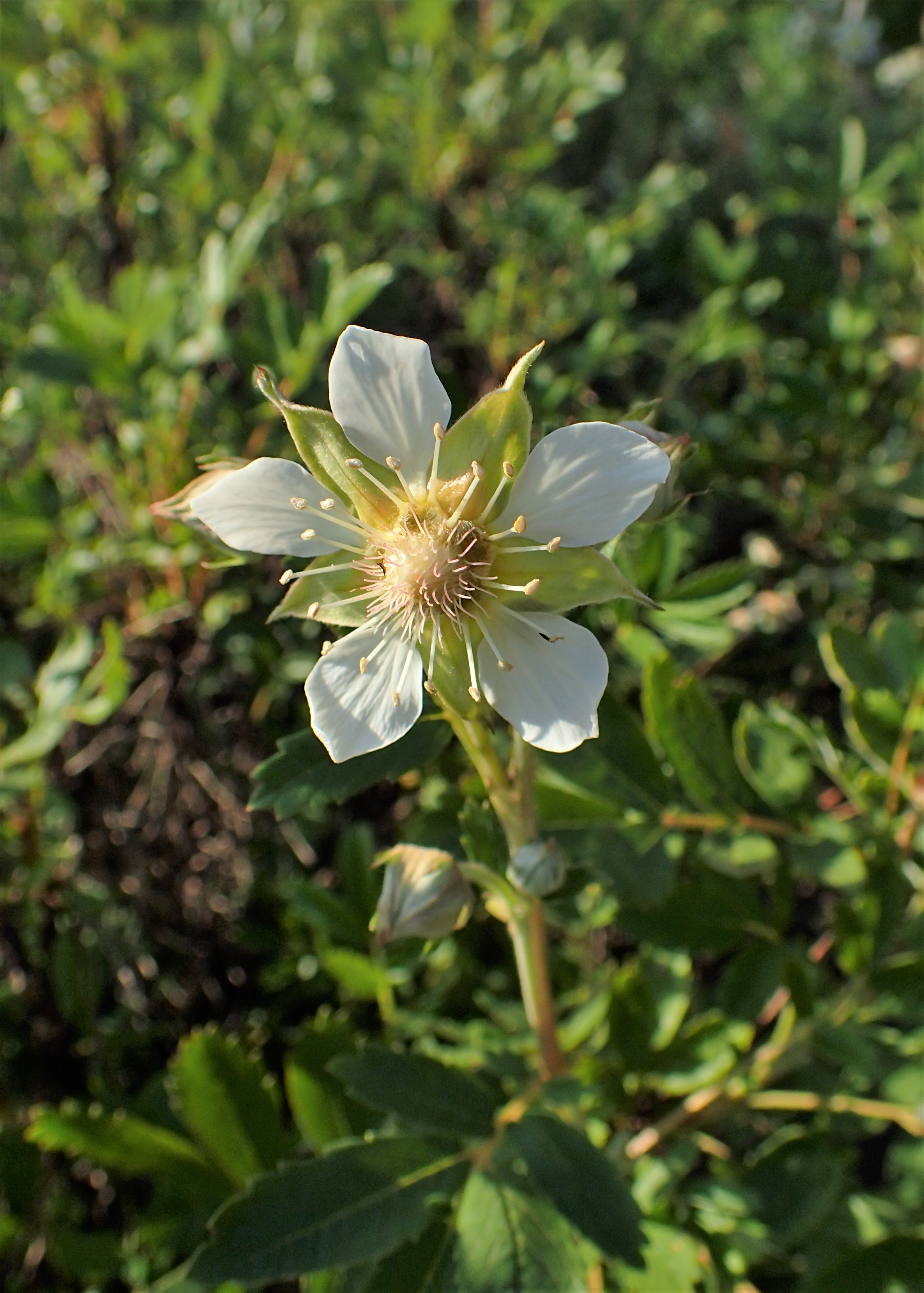 Comarum salesovianum in the Botanischer Garten, Berlin-Dahlem